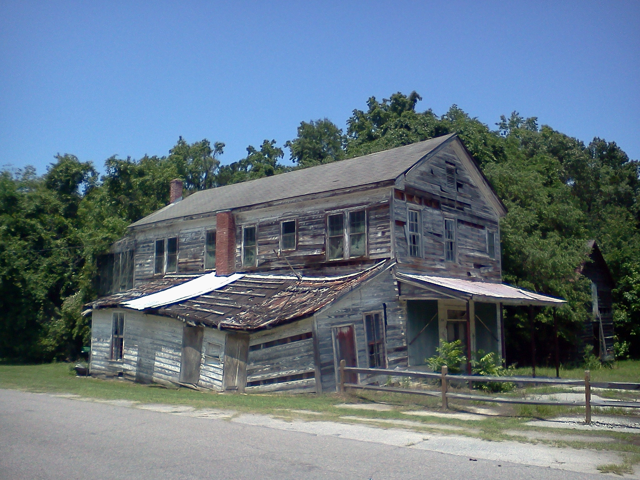 The General store and Post office were located in the same building